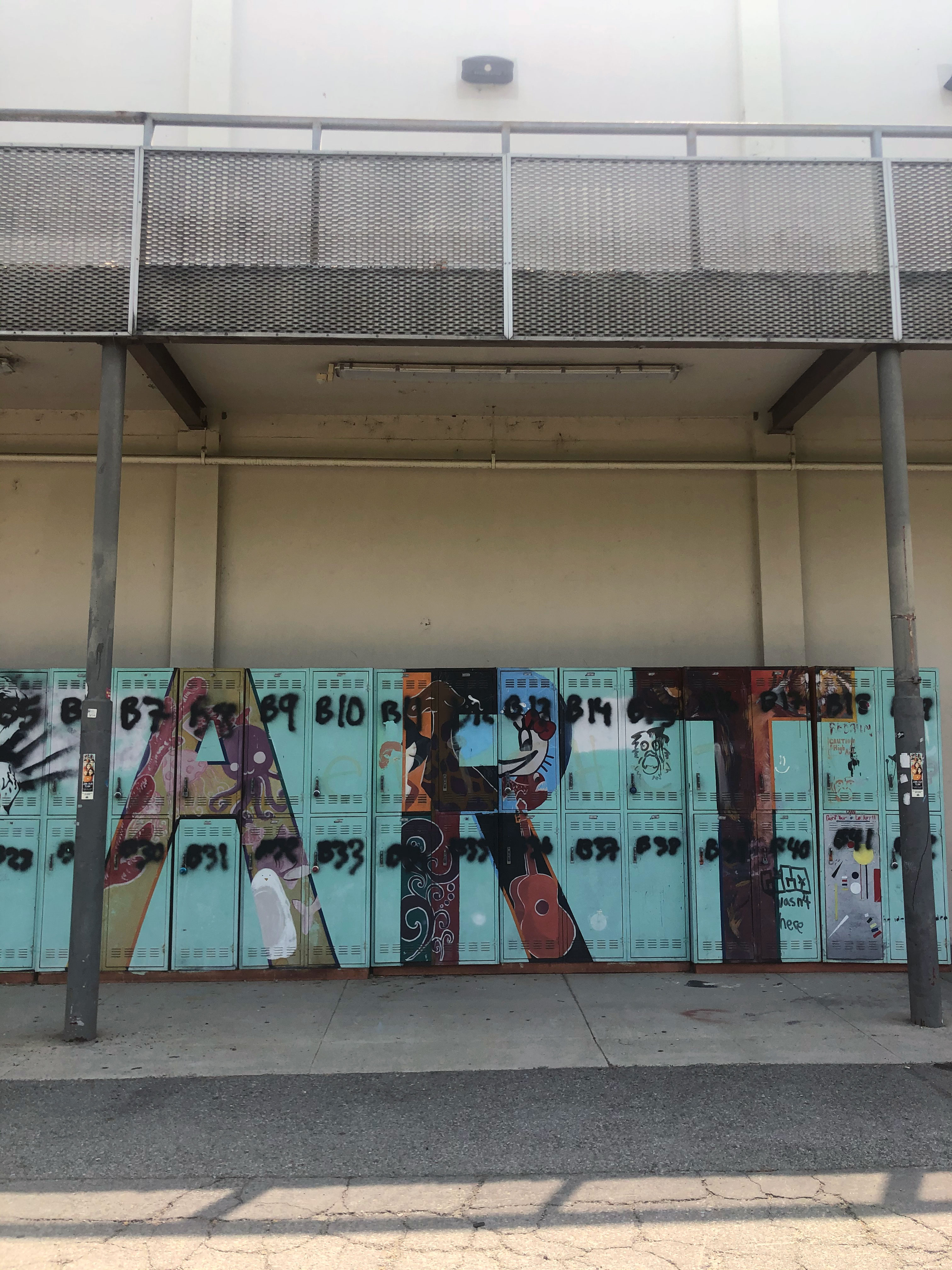 The exterior of Building 13, at Cal Poly Pomona, which houses the Art Department.